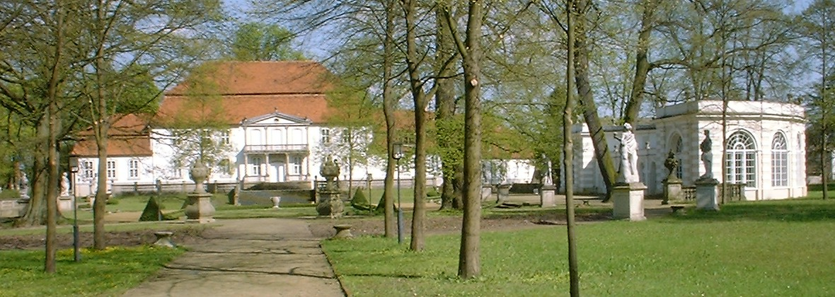 Palace and Orangery in Wiepersdorf (municipality Niederer Fläming) in Brandenburg, Germany